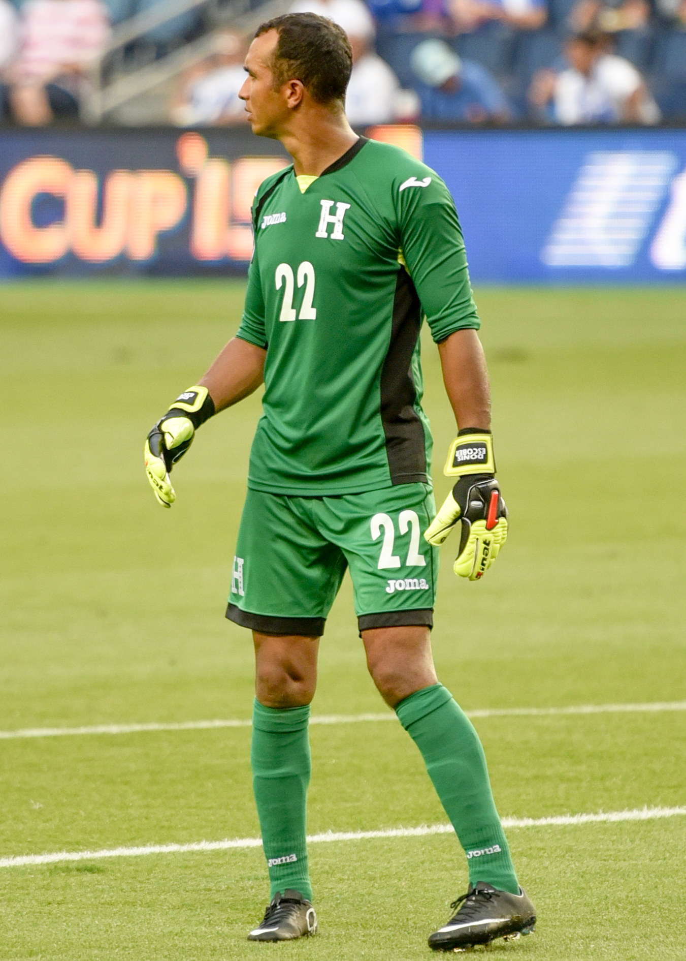 Donis Escober playing for Honduras Men's National Team against Haiti in the Gold Cup, Sporting Park, Kansas City, Kansas, 13JUL2015